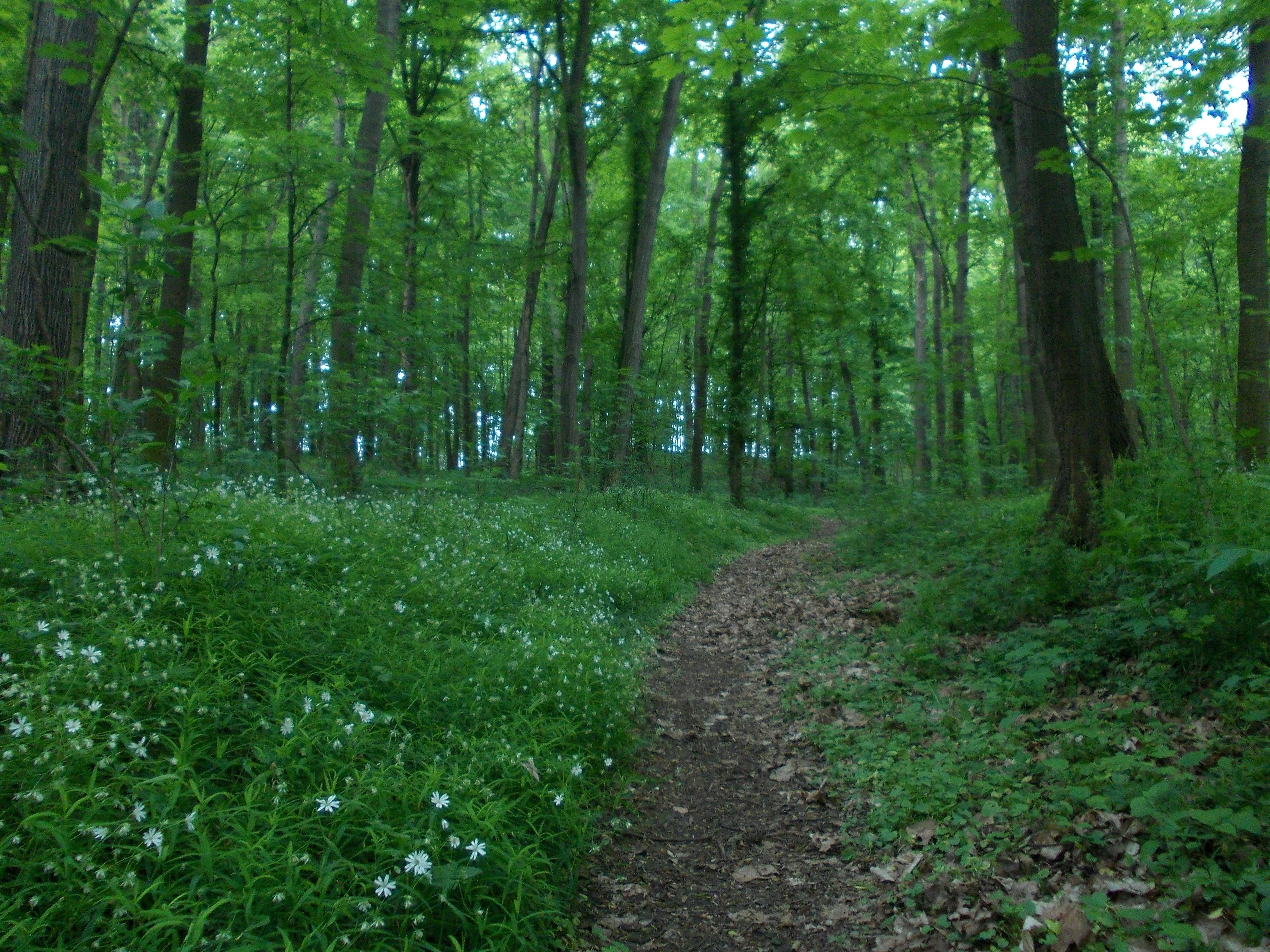 Fasanerieholz nature reserve (Altenburg, Thuringia)